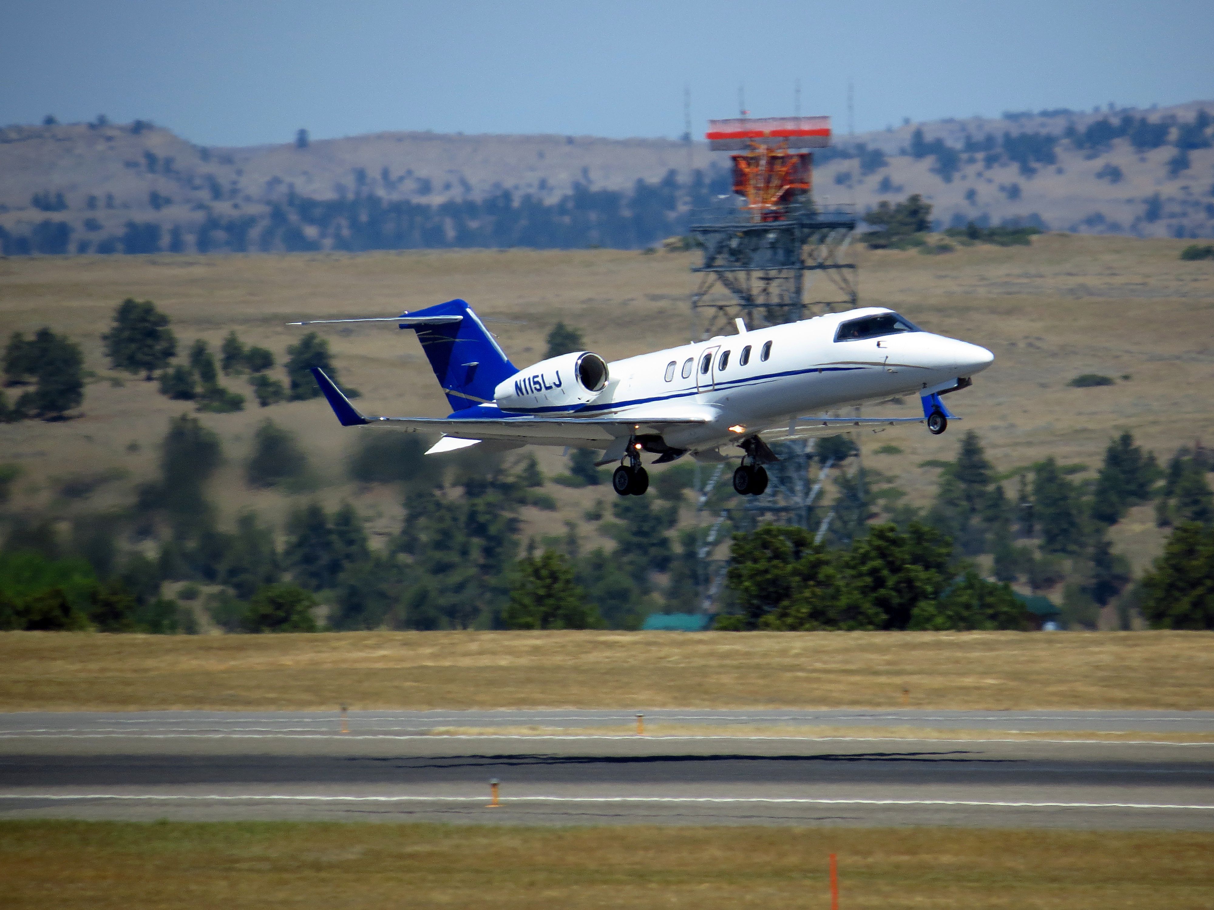 Learjet 45 Billings Logan International Airport